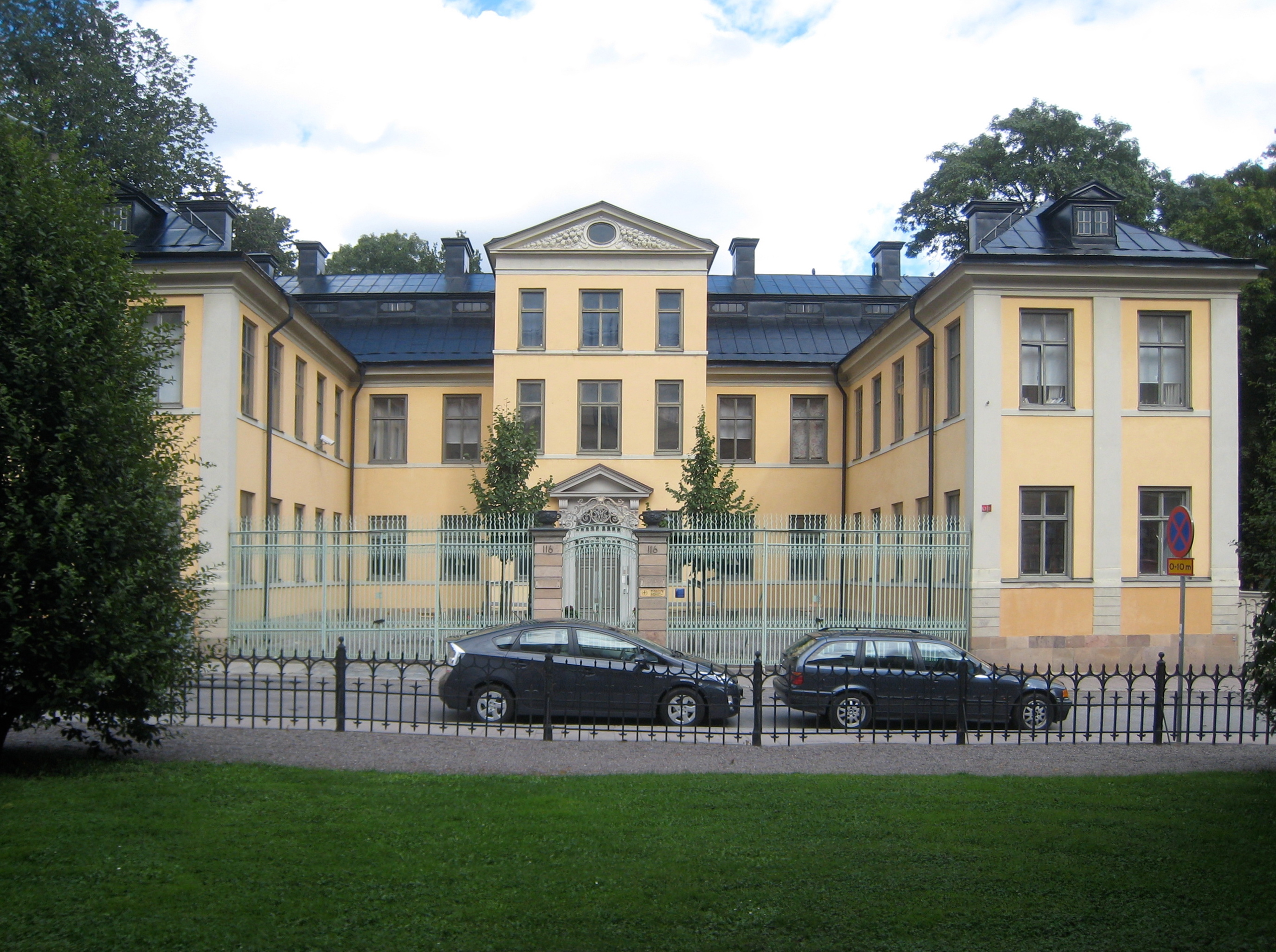 Schefflerska palatset, from Spökparken.